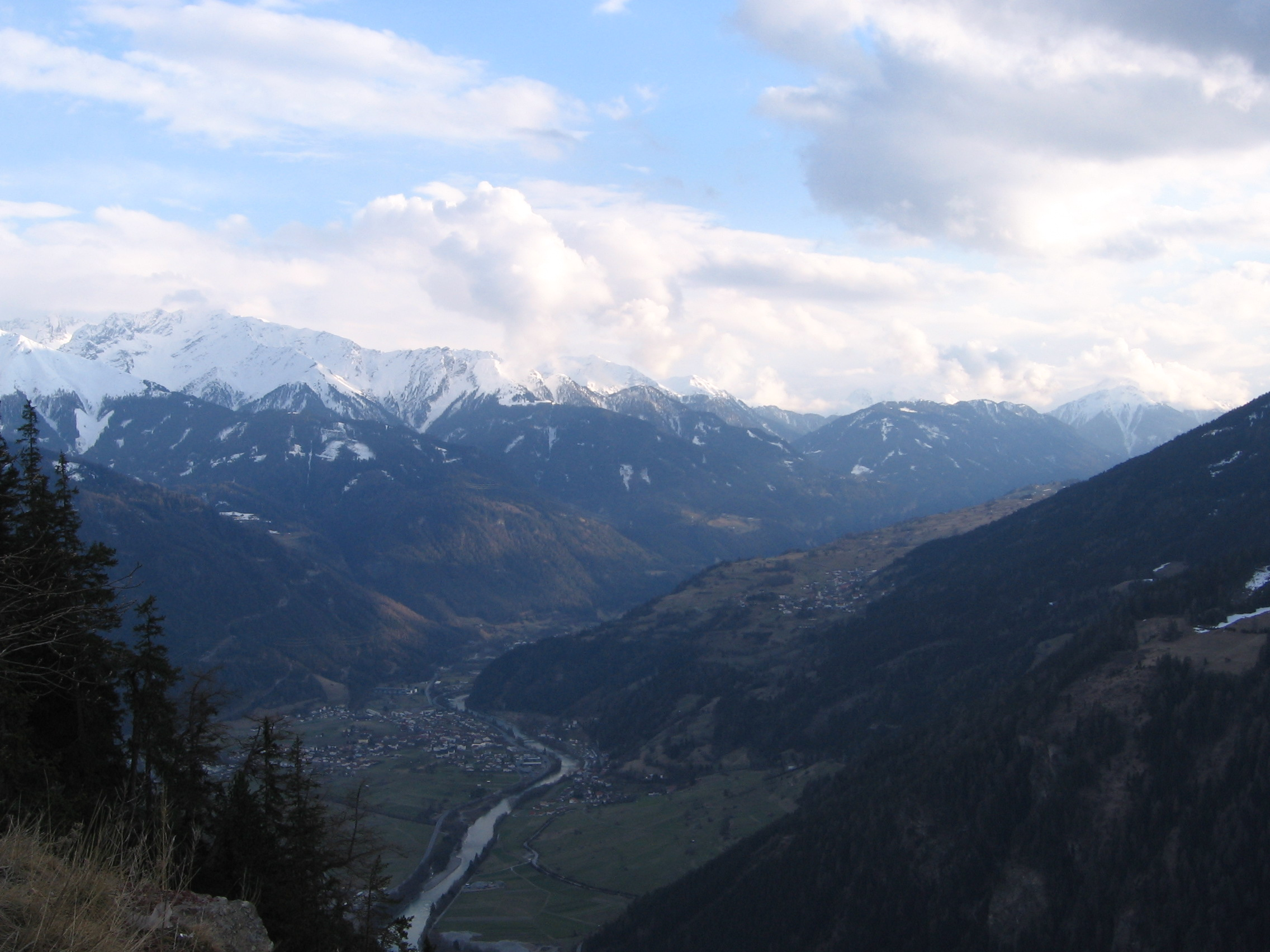 The Village Prutz, Tyrol, Austria